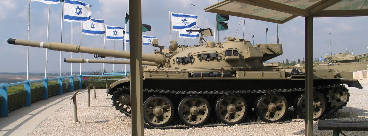 Description: Soviet T-62 MBT (Israeli designation Tiran 6) in Yad la-Shiryon Museum, Israel. 2005. Source: Photo by me, User:Bukvoed.